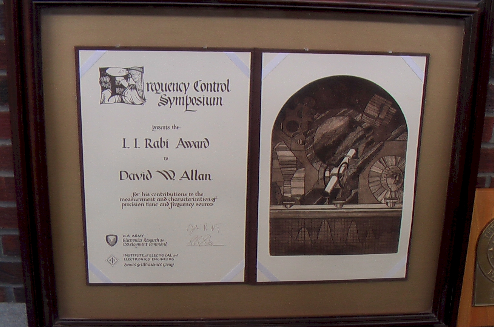 The I. I. Rabi Award presented to my dad, David W. Allan, in 1984, the second to receive it after Isidor Isaac Rabi.See Institute of Electrical and Electronics Engineers. Rabi Award. for more details.